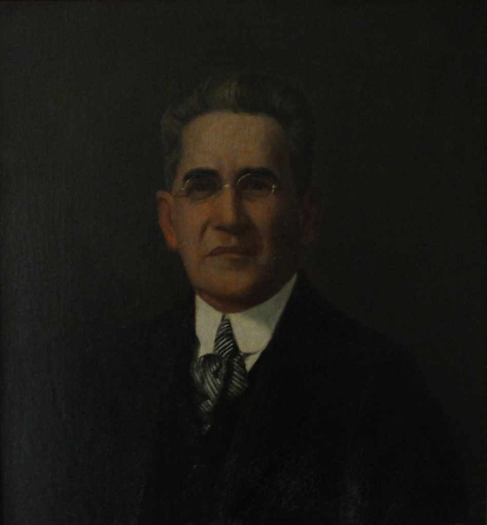 Luis Yordan Davila, former mayor of Ponce, Puerto Rico